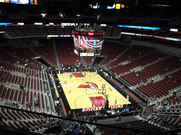 The interior of the KFC Yum! Center in Louisville, Kentucky configured for basketball. The Yum! Center is the home arena of the University of Louisville Cardinals men's and women's basketball teams.